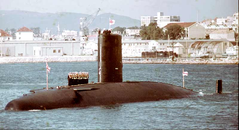 HMS Warspite entering Gibraltar, Feb 1970